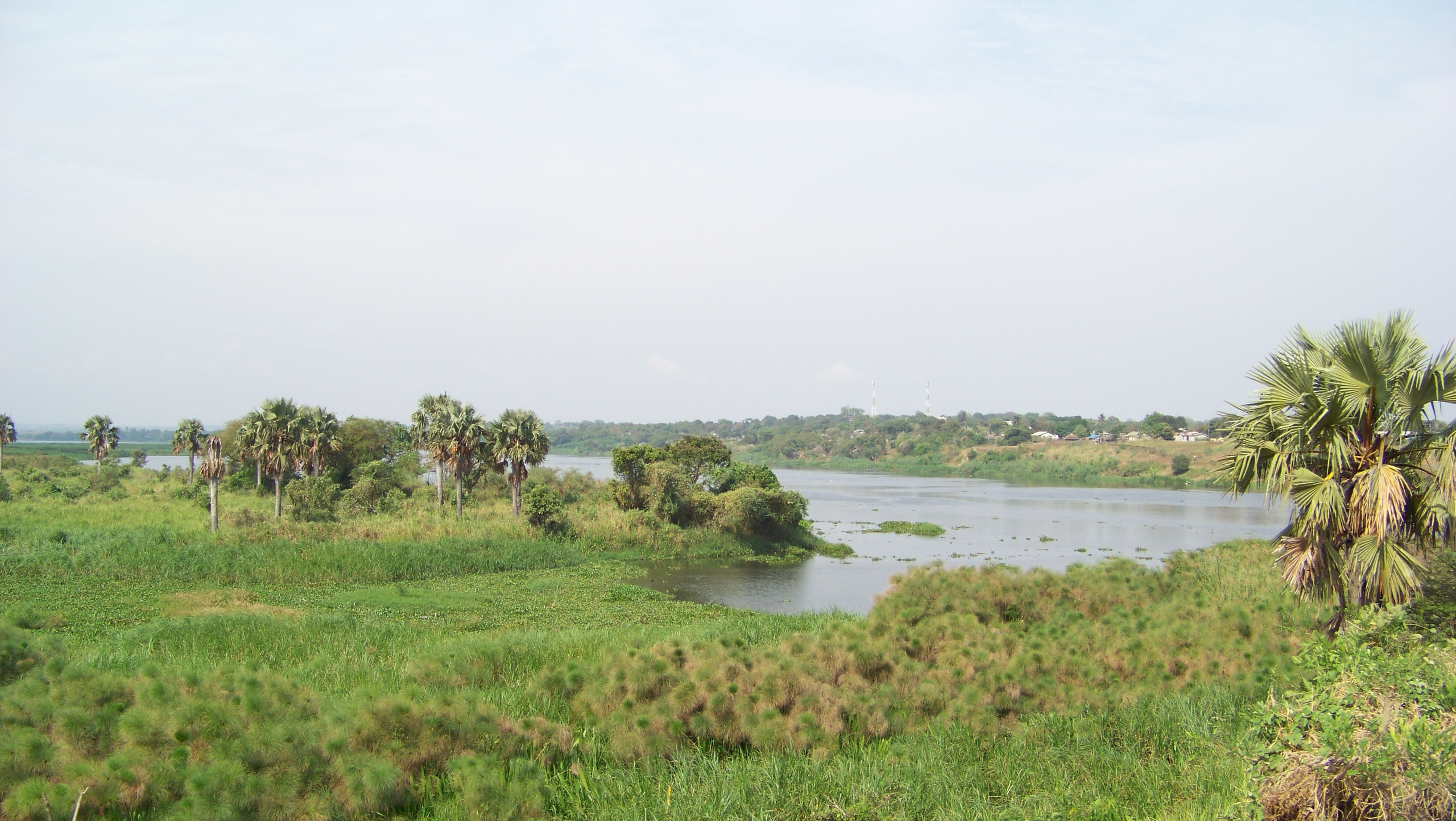 Lake Albert flowing out into Albert Nile near Pakwach, Uganda